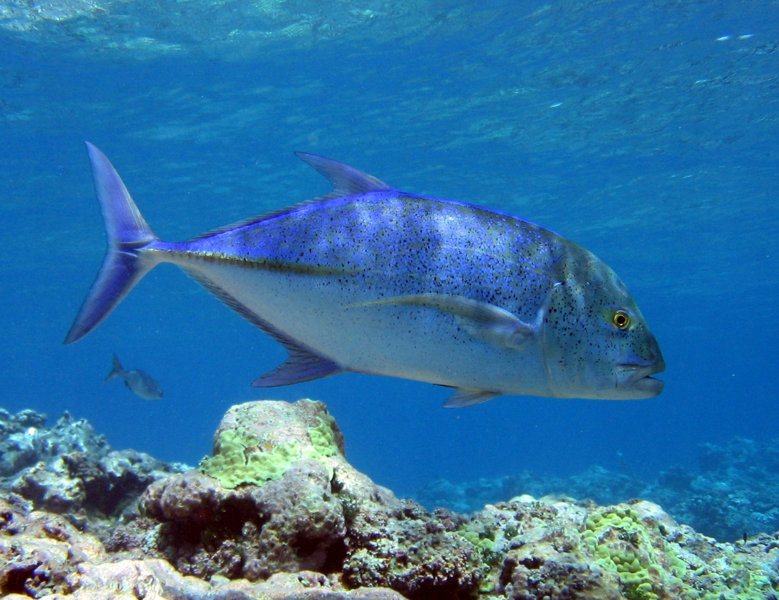 Bluefin trevally (Caranx melanpygus) Image ID: reef0749, NOAA's Coral Kingdom Collection Location: Northwest Hawaiian Islands